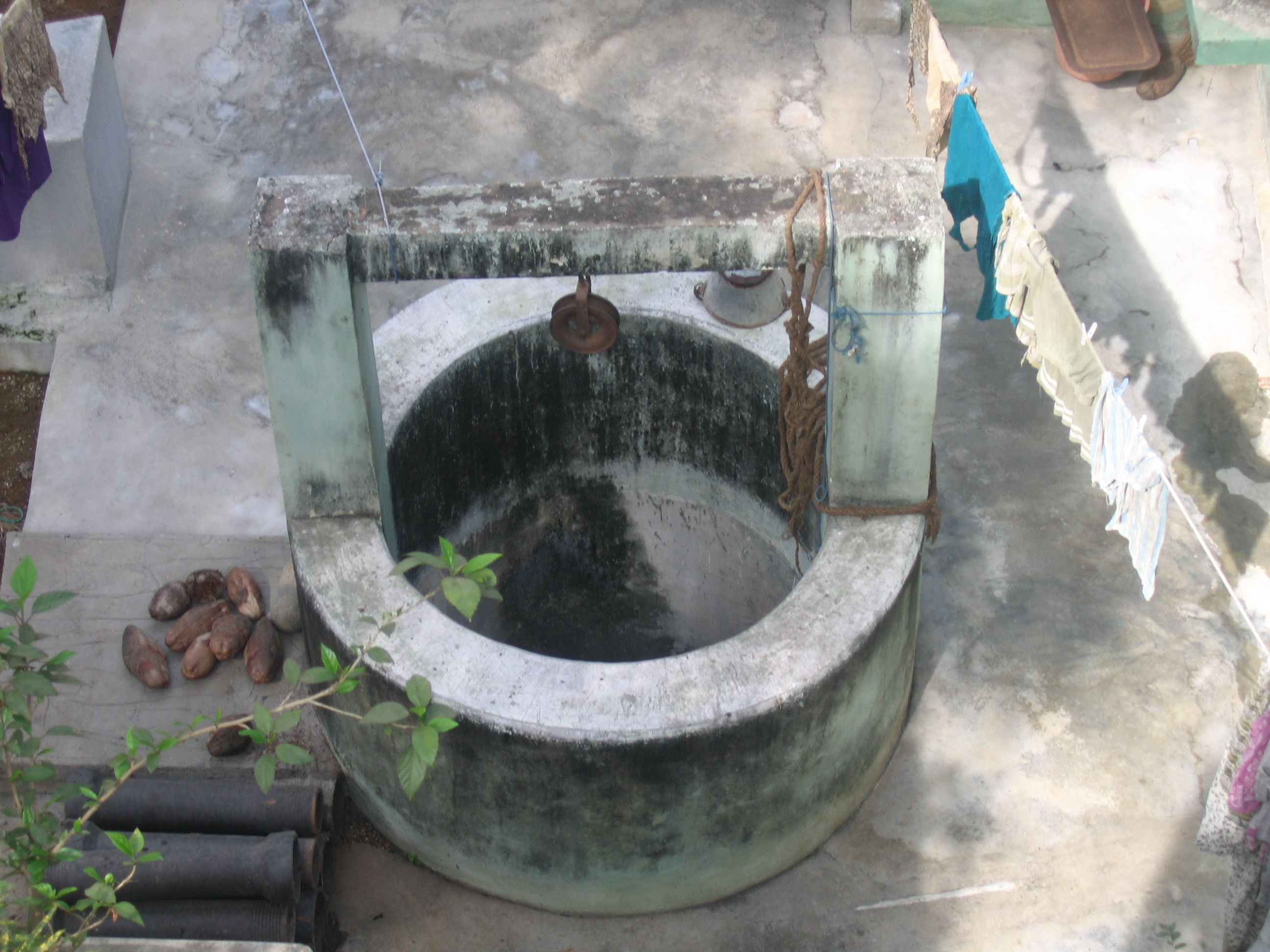 A water well in India. Own work, Licensed as attribution, sharealike.